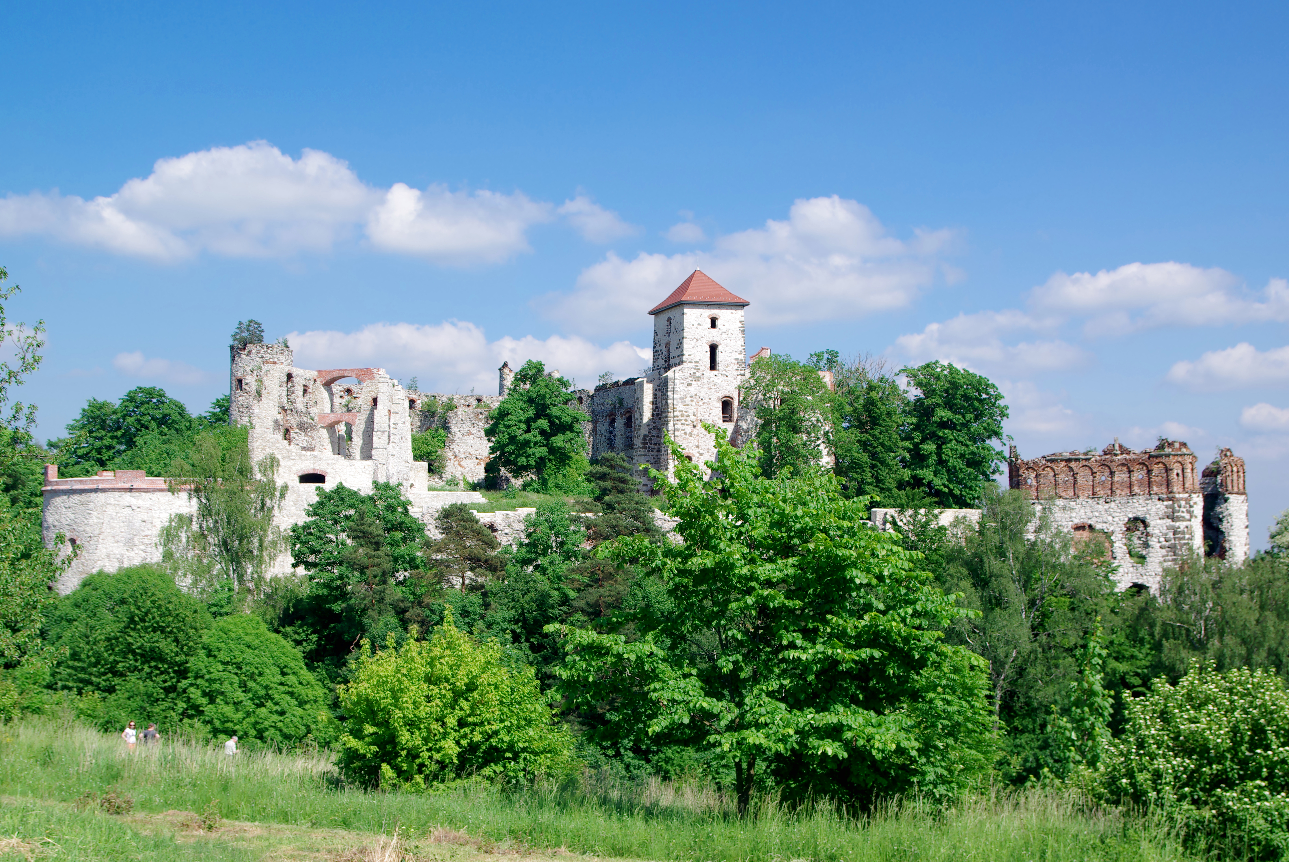 Tenczyn Castle in Rudno